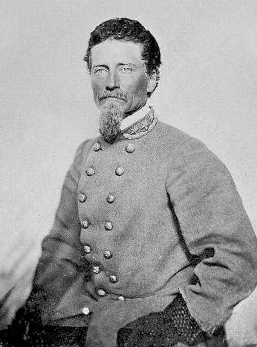 Photo of Confederate general Dabney H. Maury